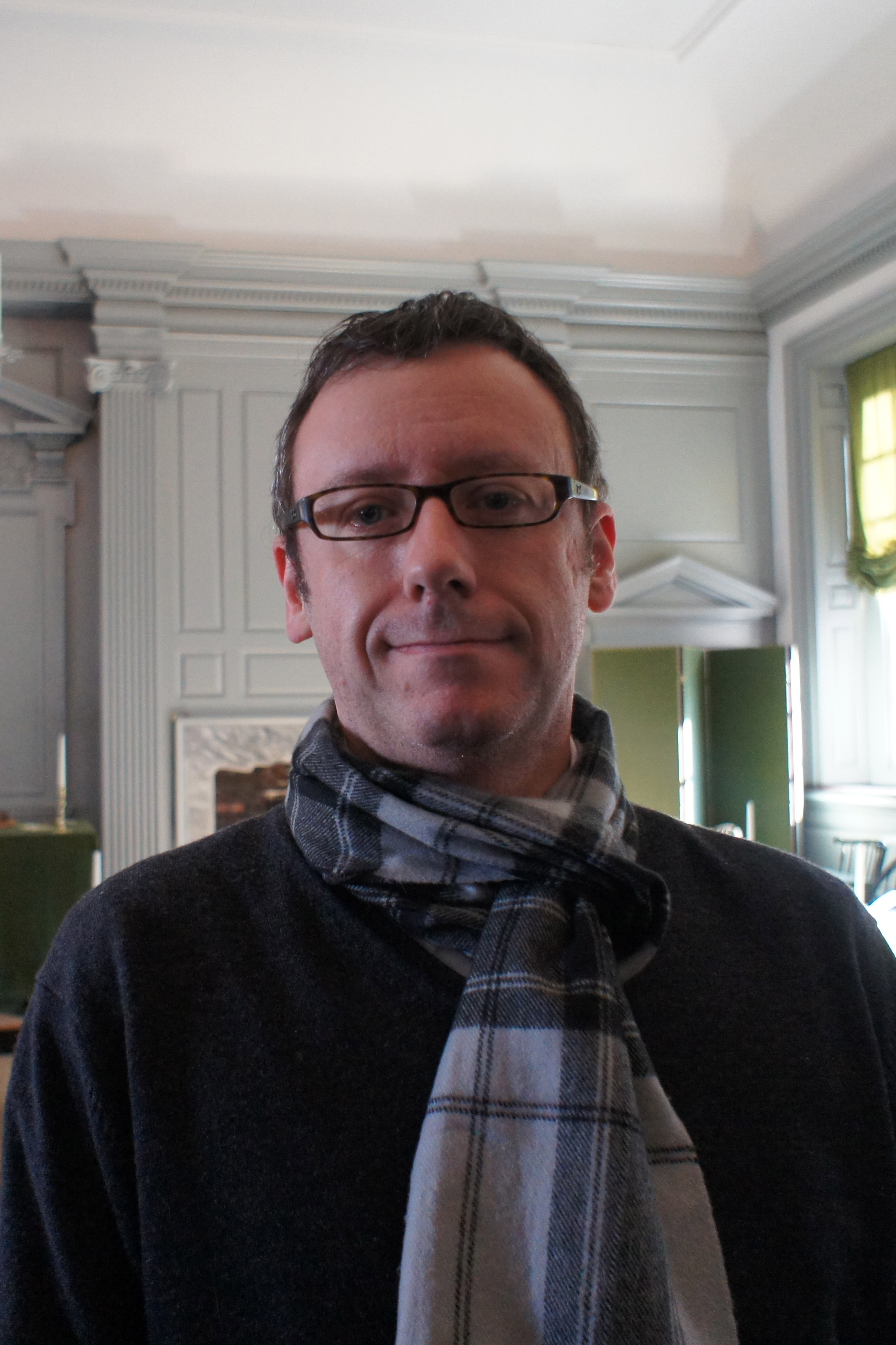 Gary Whitta January 28, 2012